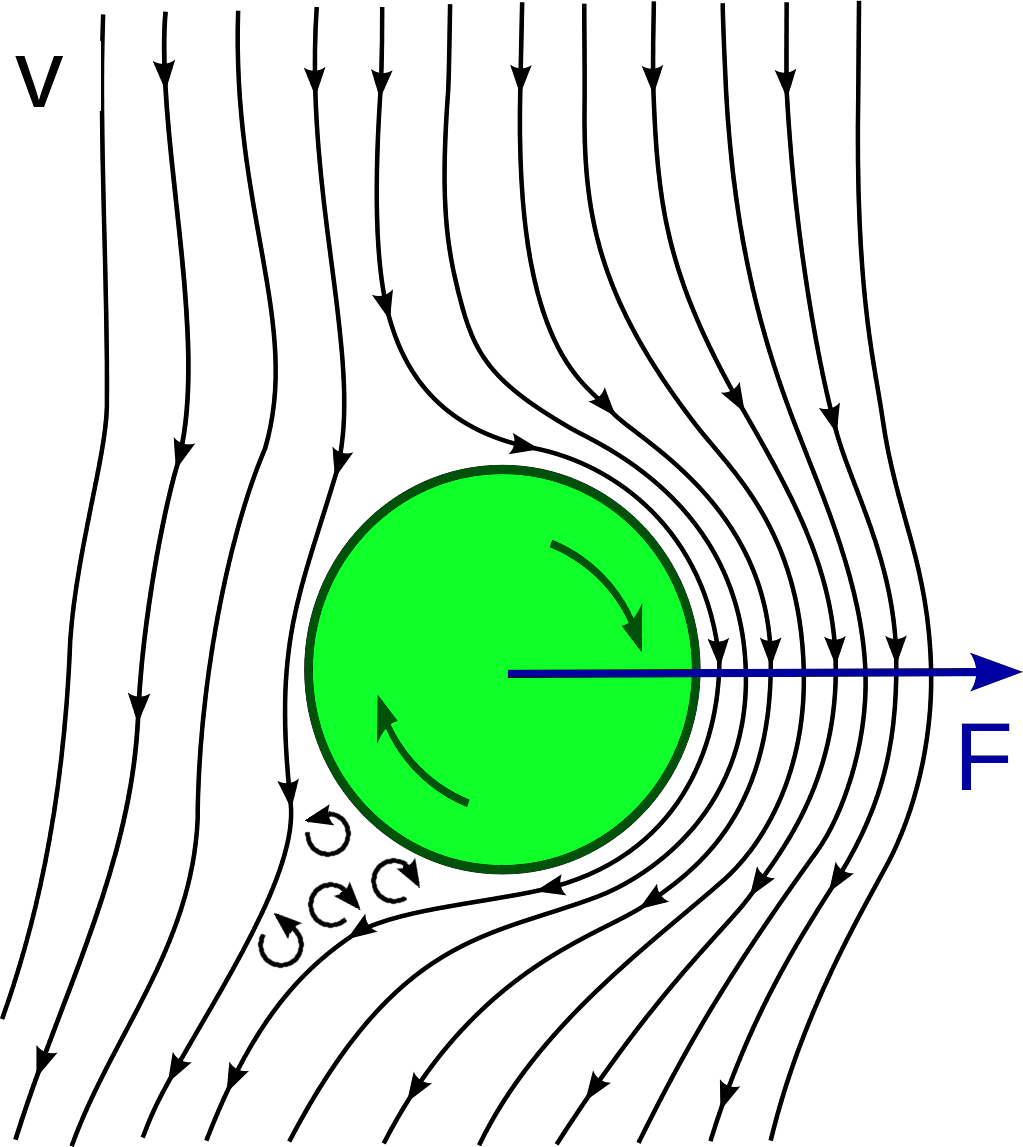 Magnus effect. In sum, the air flow V around the side of the clockwise rotating cylinder, which rotates with the flow, is greater than on the other side causing a slight pressure difference. In the image that is on the right side of the cylinder, so that it experiences a force F in this direction.